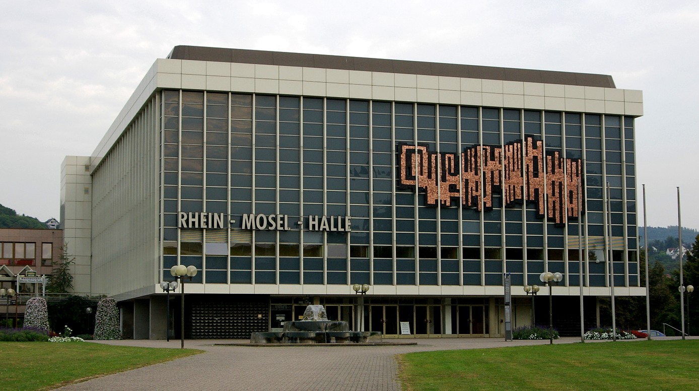 Town-Hall in Koblenz, Germany with ceramic artwork (1962) by Eugen Keller Quelle / Source: 9. September 2005 Fotograf / Photographer: Brego